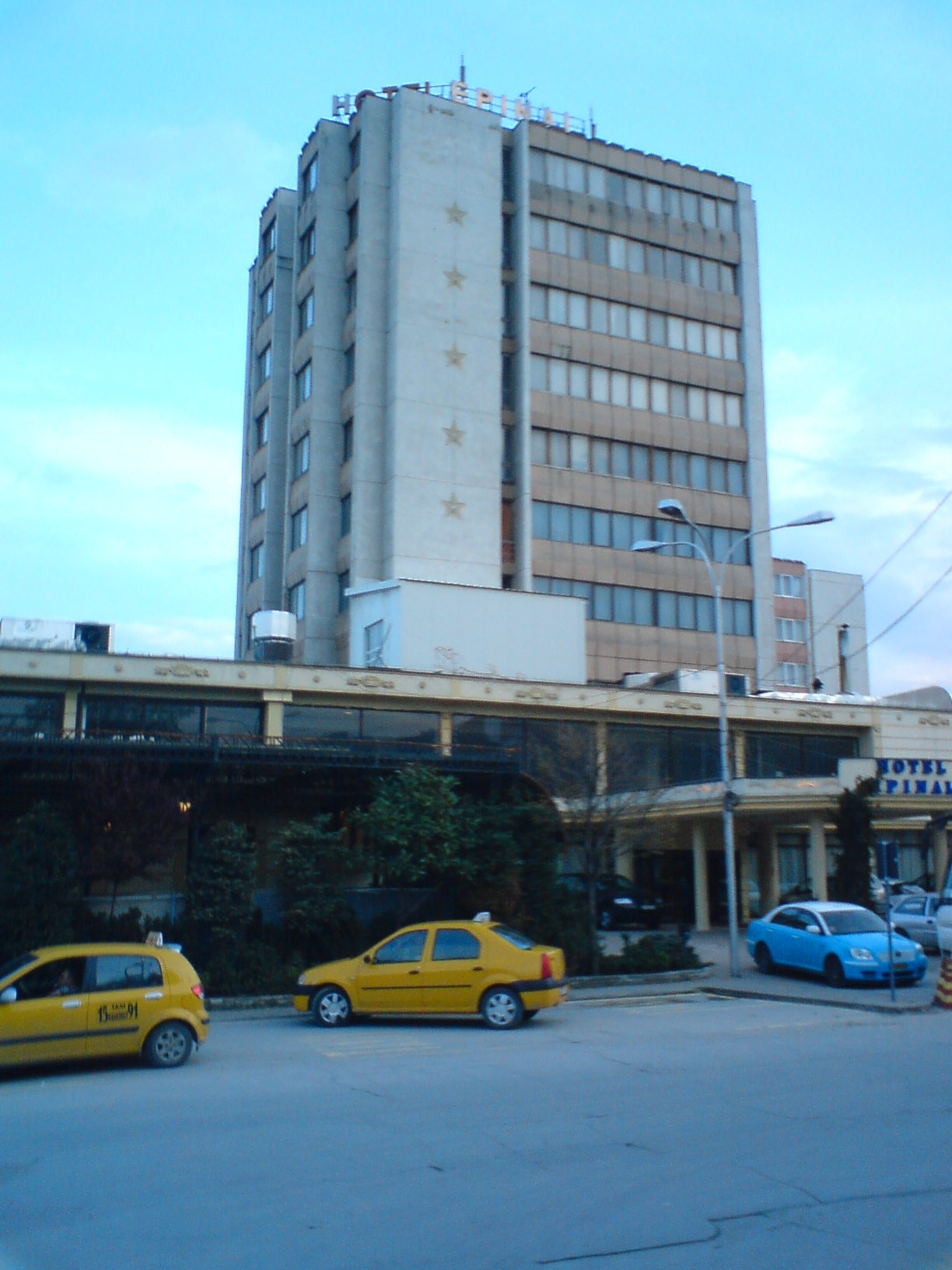 Hotel "Epinal" in the center of Bitola, named in honor of the French city Épinal, a sister city of Bitola. In return, a quarter in the city of Épinal is called Bitola, and a Macedonian flag is flown there.